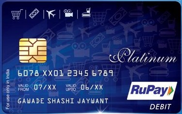 A sample RuPay Debit Card